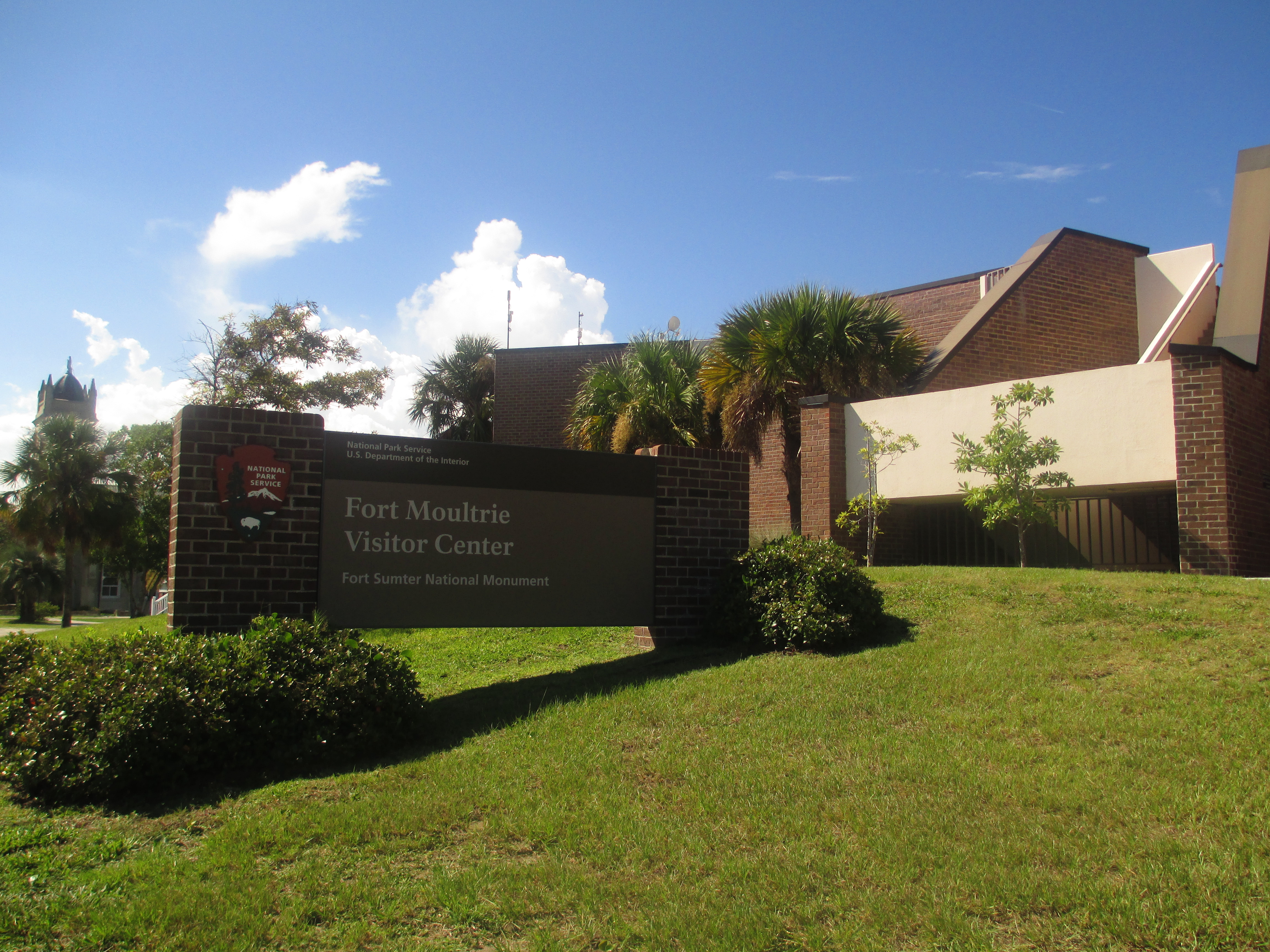 I took photo at visitor center at Fort Moultrie National Monument with Canon camera.